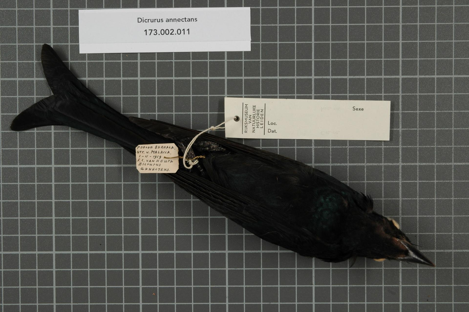 Dicrurus annectans (Hodgson, 1836)